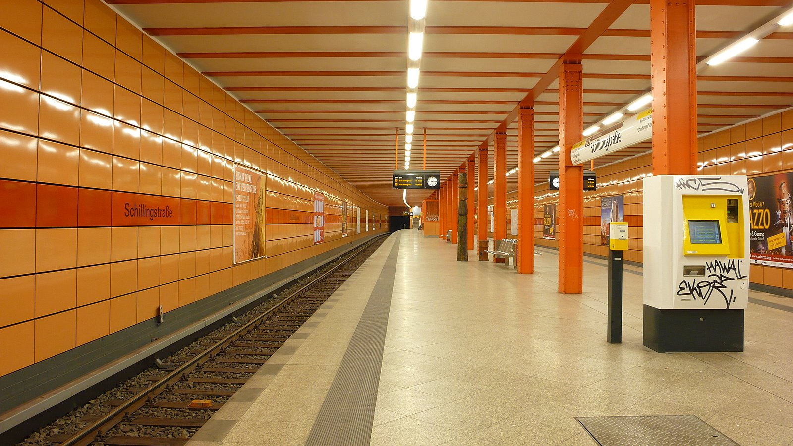 Schillingstr